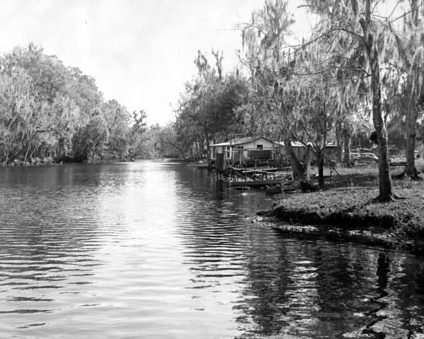 This was the favorite haunt of the The Pork Chop Gang, a group of conservative Florida legislators in the mid-20th century.